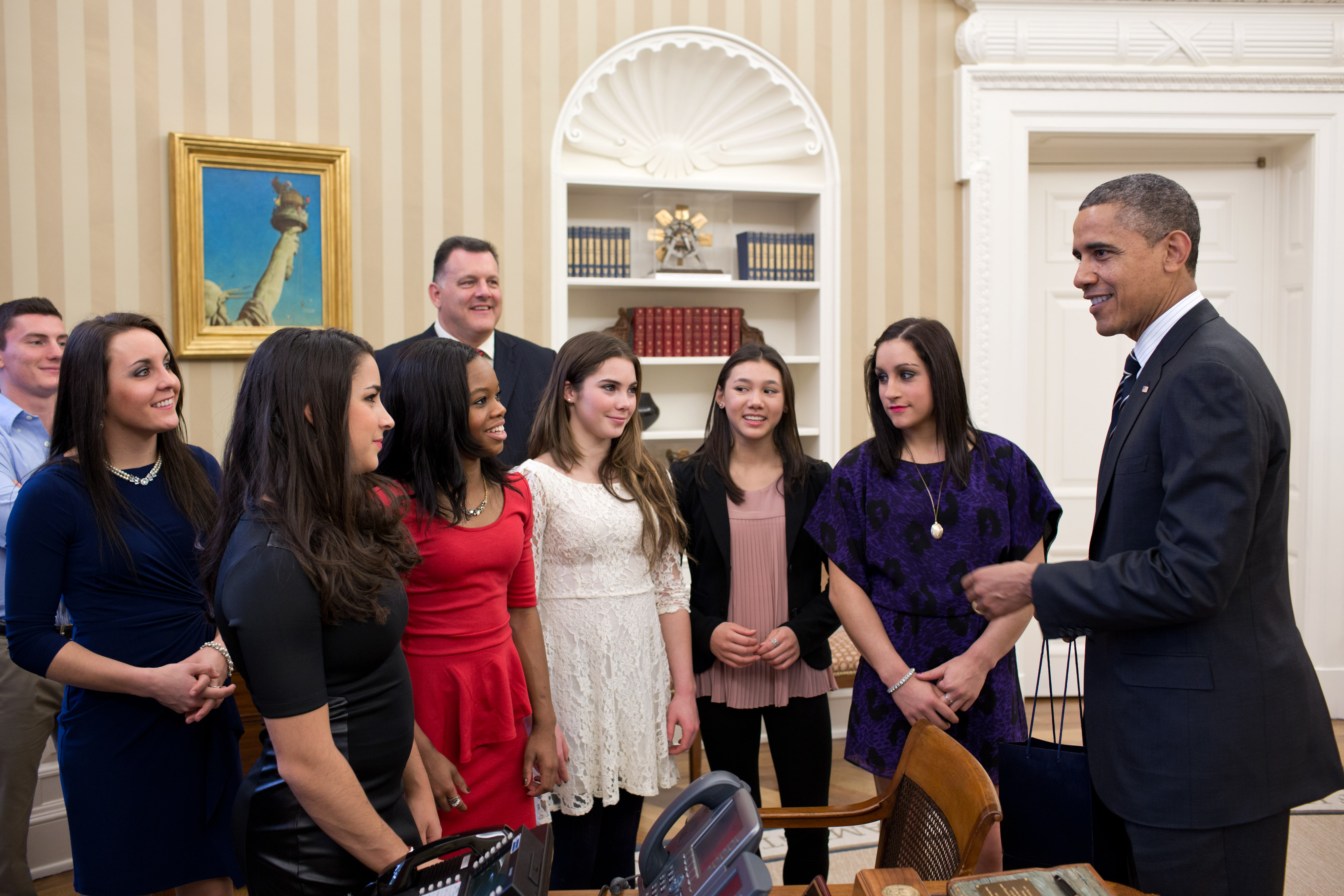 President Barack Obama talks with members of the 2012 U.S. Olympic gymnastics teams in the Oval Office, Nov. 15, 2012. Pictured, from left, are: Steven Gluckstein, Savannah Vinsant, Aly Raisman, Gabby Douglas, Steve Penny, USA Gymnastics President, McKayla Maroney, Kyla Ross, and Jordyn Wieber. (Official White House Photo by Pete Souza)